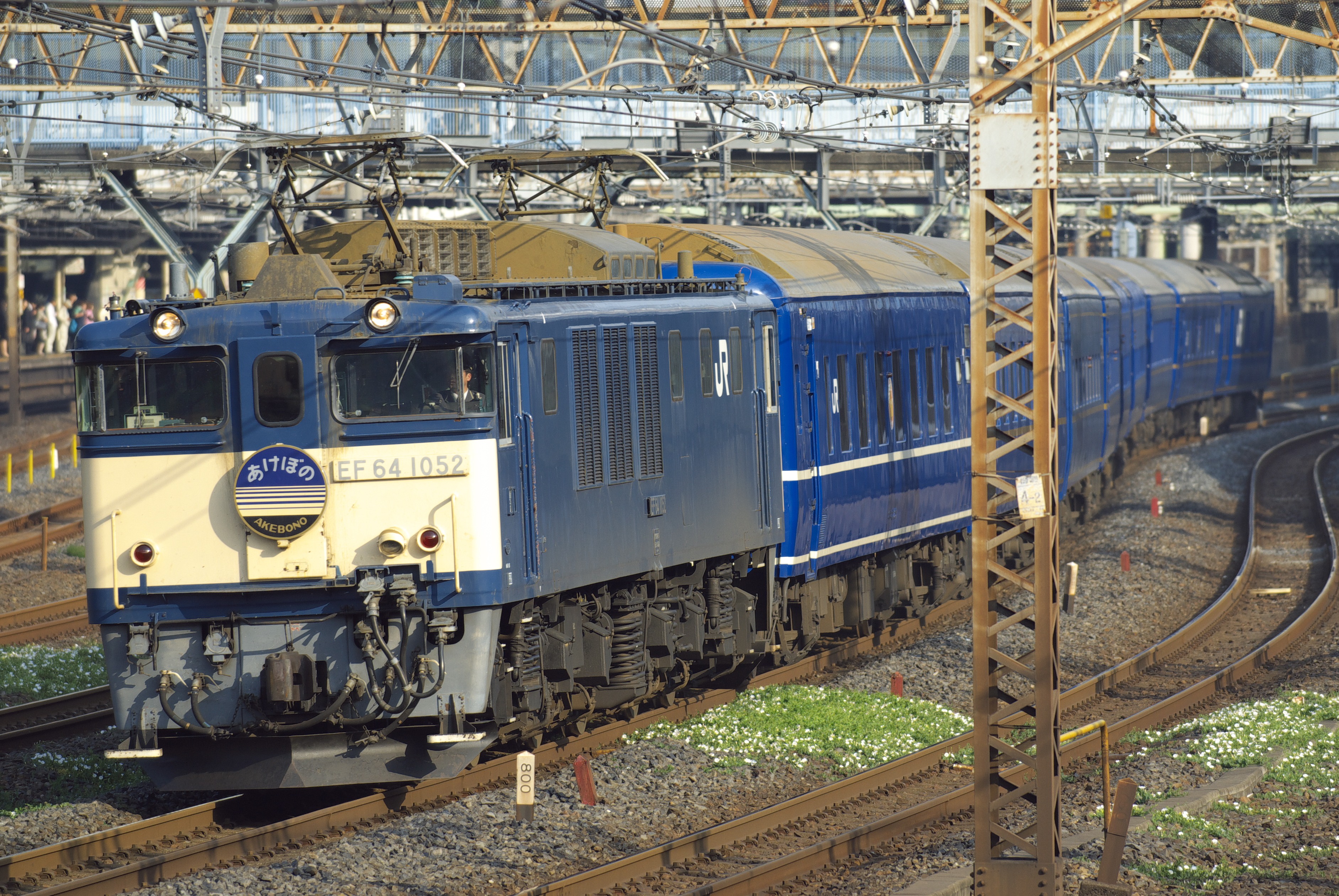 EF64 1052 at the head of an Ueno-bound "Akebono" sleeping car service seen between Uguisudani and Nippori stations in Tokyo